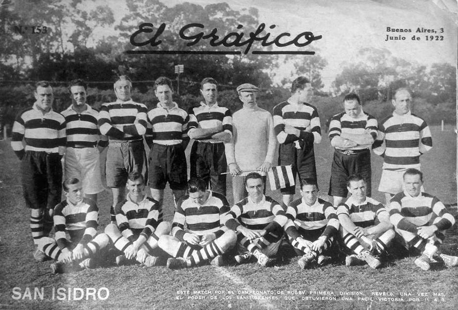 CA San Isidro (CASI) team in 1922.